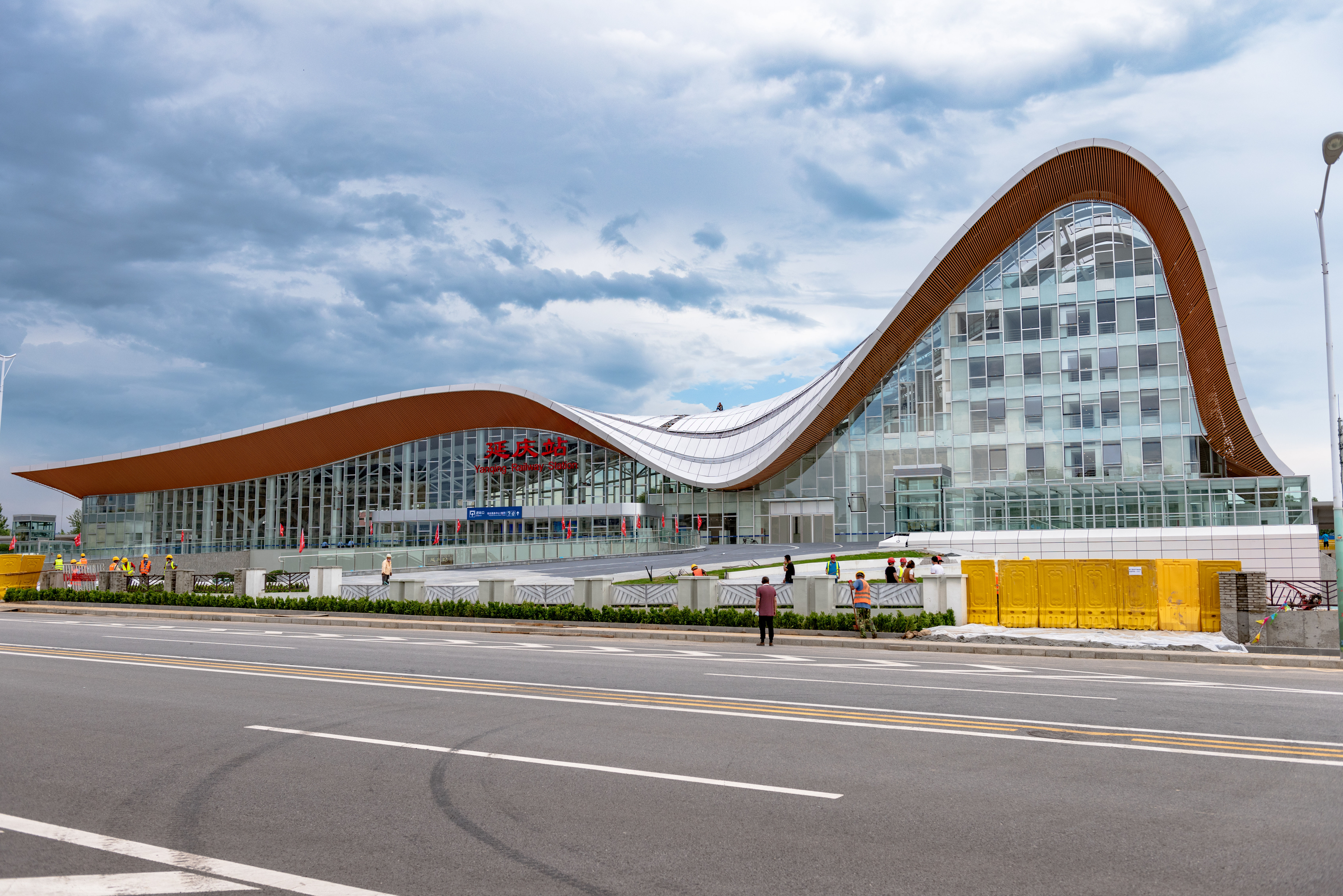 Someone said that the outline looks like a roller coaster!